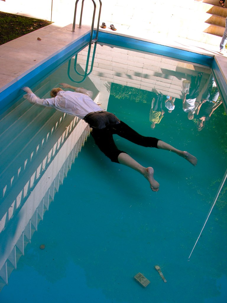 Death of a Collector, 2009, by Elmgreen and Dragset at the 53rd Venice Biennale